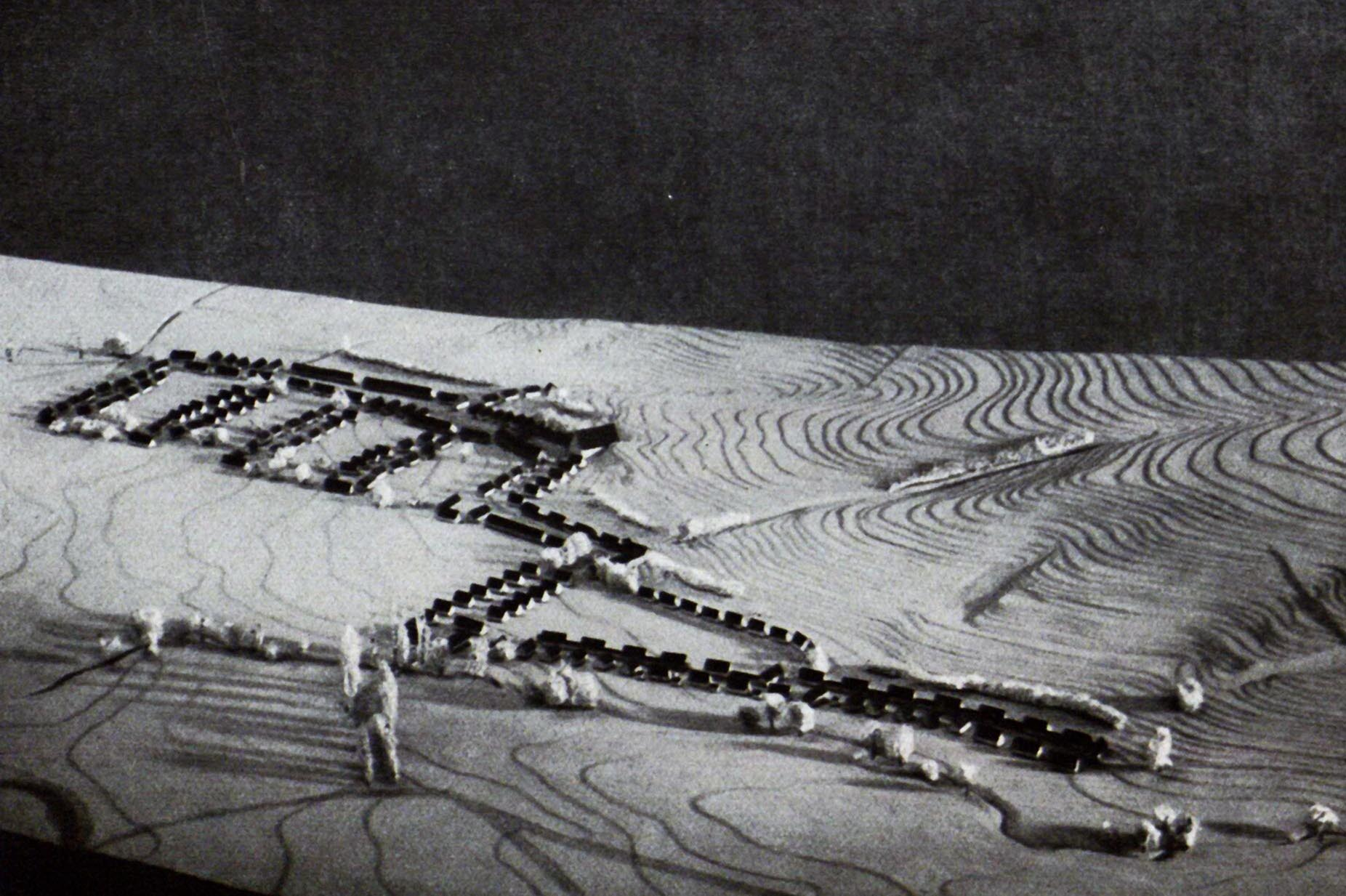 Model of planning for Gartenstadt district (historic: Vier-Jahresplan-Siedlung) in Bad Neustadt 1939